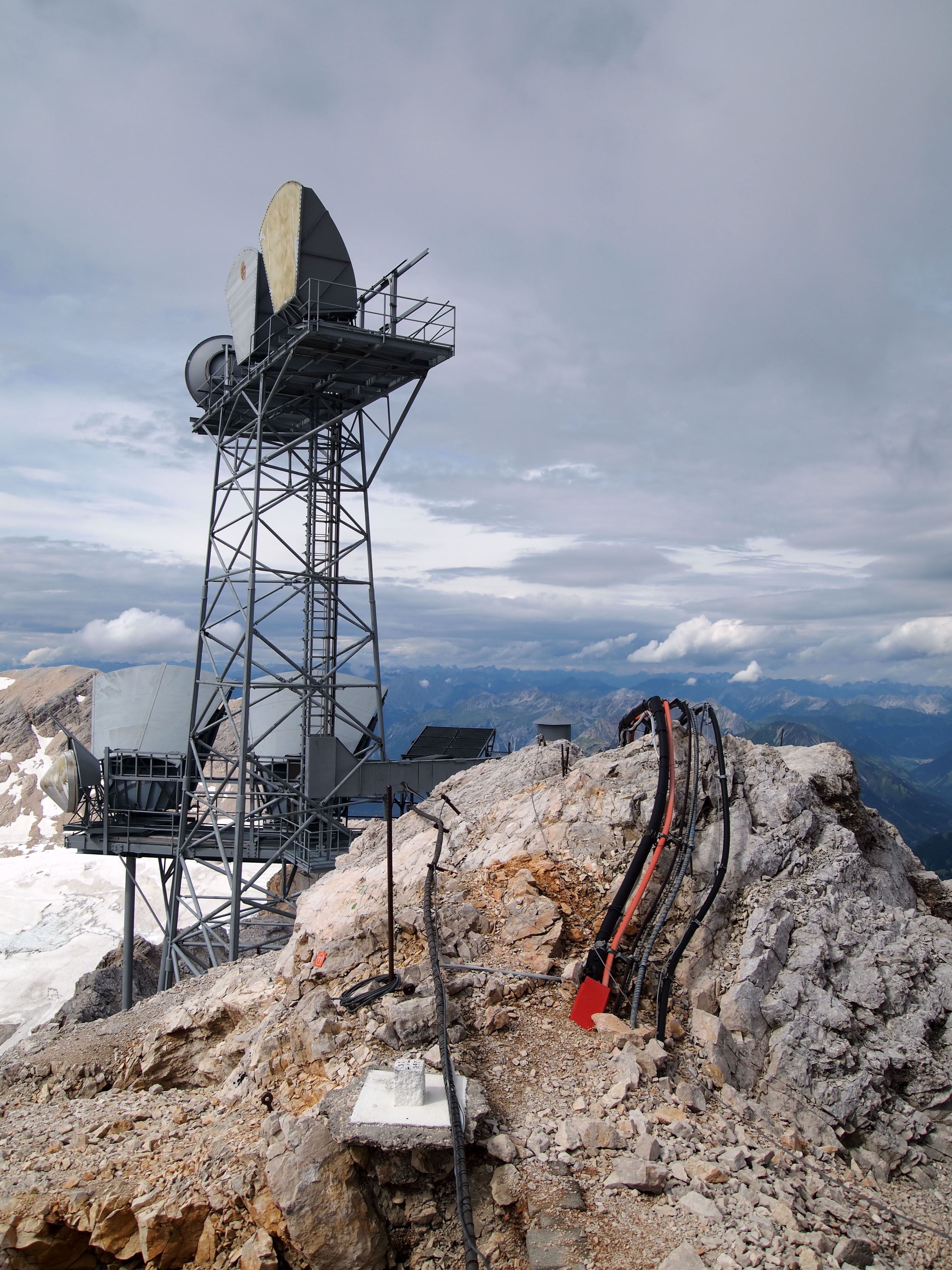 View on the mountain Zugspitze.This photograph was taken with an Olympus E-PL1